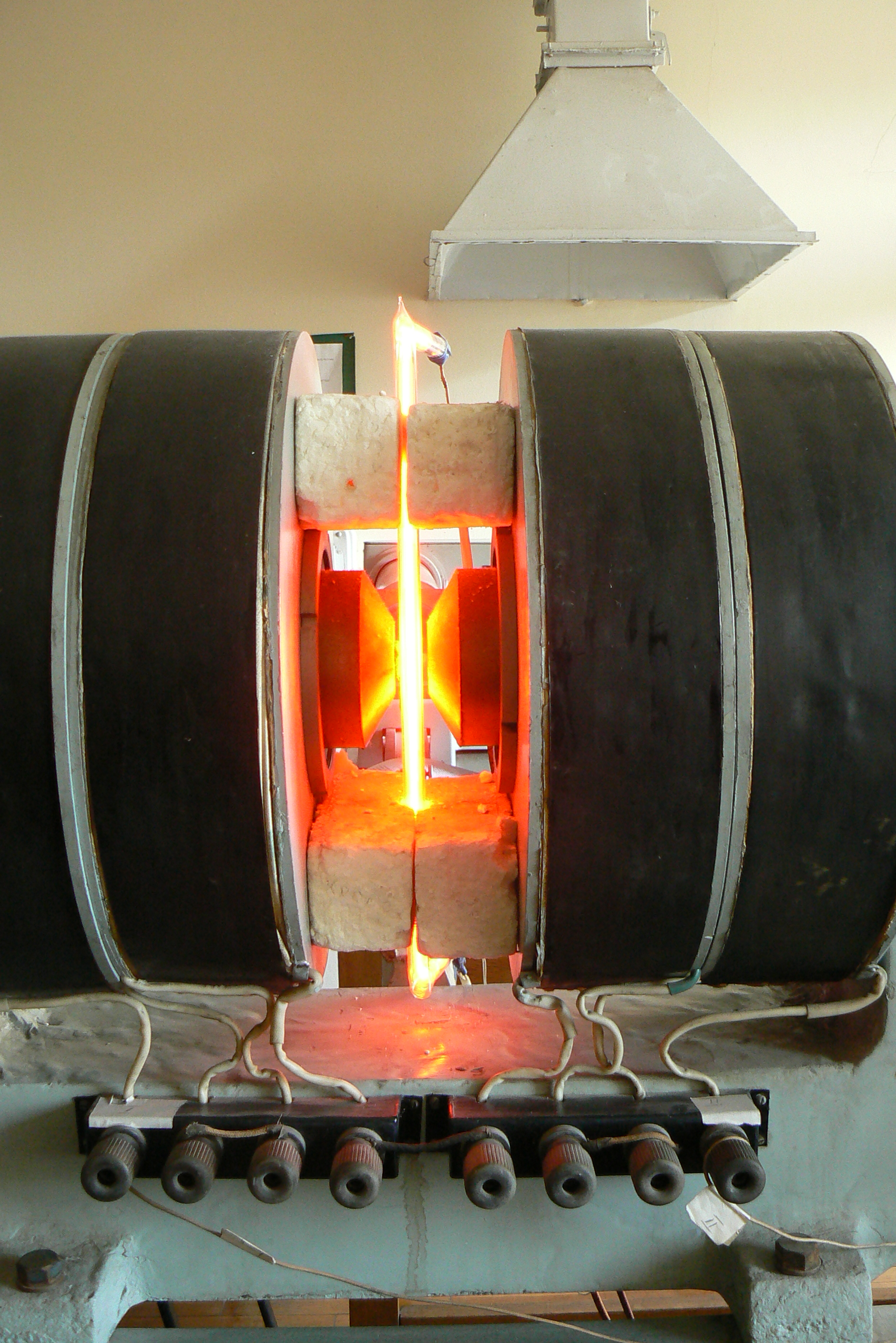 This is a part of equipment to observe the Zeeman Effect (a splitting of the spectral lines in the presence of a magnetic field). The tube with neon gas is located between the poles of a large electromagnet.